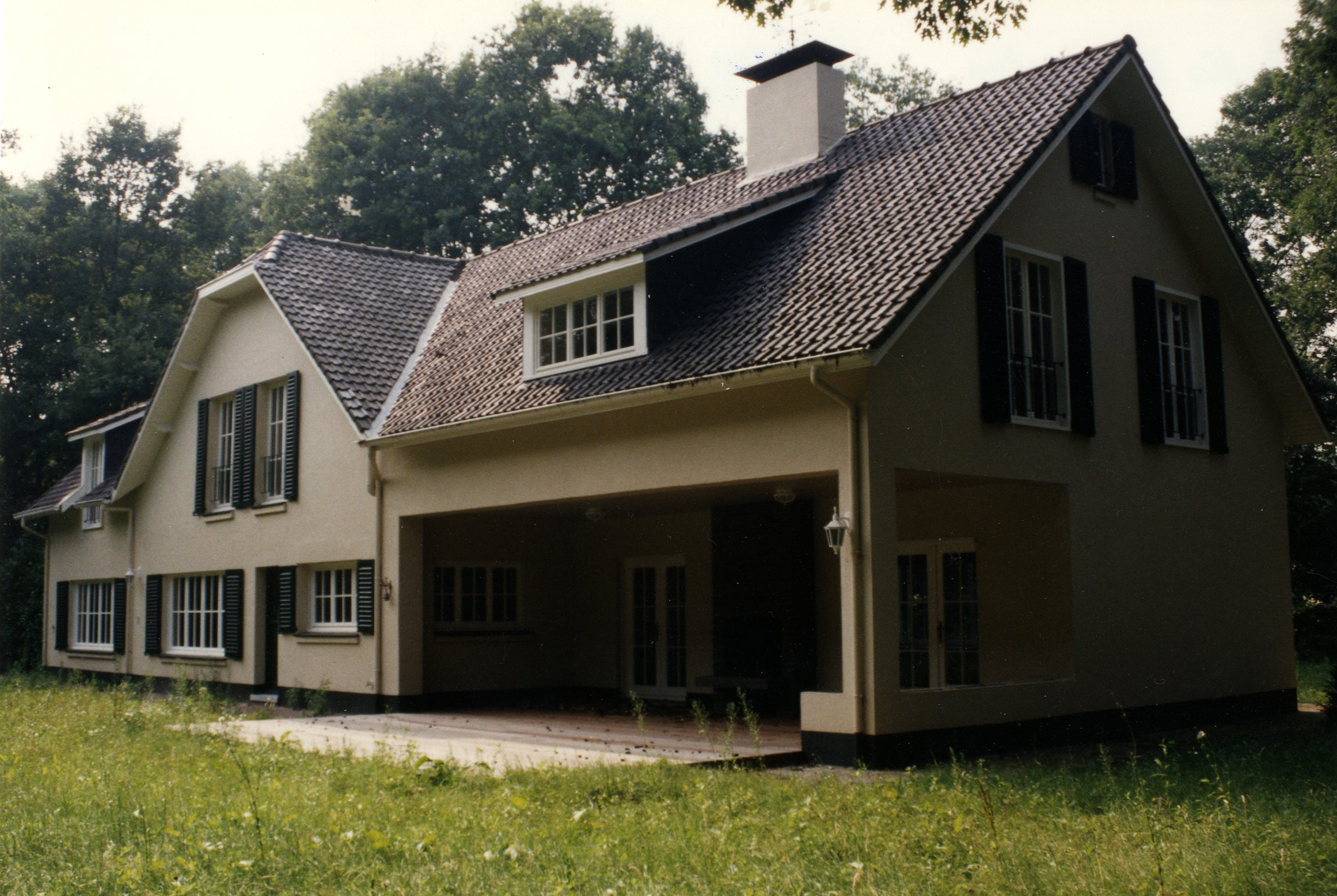 Achtergevel van de voormalige woning van Willy Vandersteen in Kalmthout.